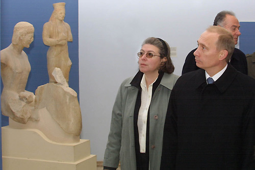 ATHENS. President Putin at the Acropolis Museum.